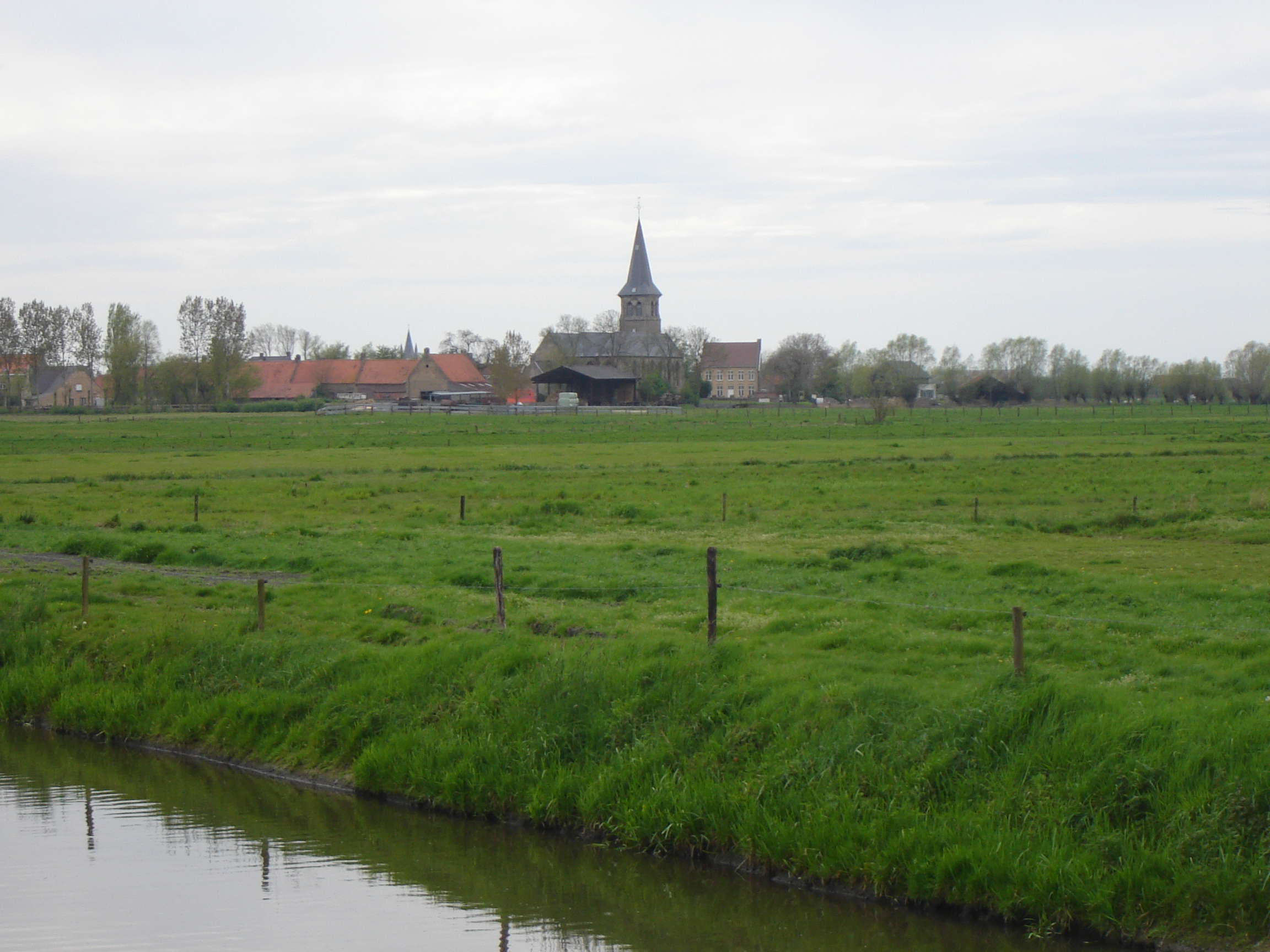 View on Noordschote. Noordschote, Lo-Reninge, West Flanders, Belgium